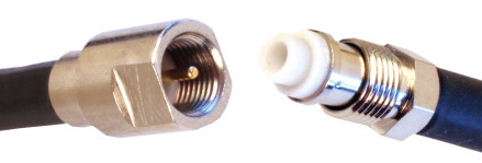 FME RF Connector